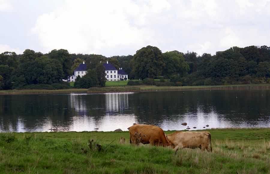 The mansion Eriksholm southeast of Holbæk, Holbæk Kommune, Denmark